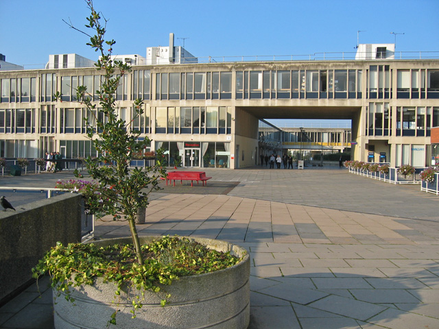 University of Essex The Colchester Campus of the university, seen from beside the Albert Sloman Library.